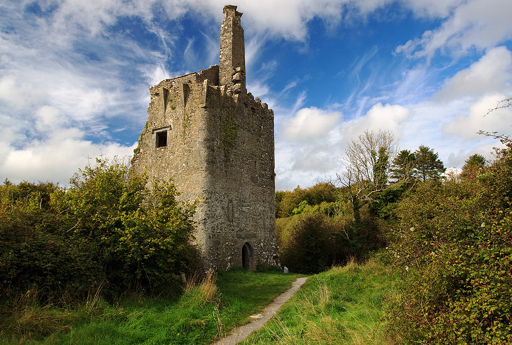 Castles of Munster: Dromore, Clare The castle is easy to find being signposted from the car park of a 400 hectare nature reserve and sited on the edge of a reed fringed inlet of Dromore Lough. The NE wall contains two levels of rooms above an entrance passage and guard room. There is a tall chimneystack at the top with corbels for a bartizan on the east corner. The stack would suggest a date of around 1600 for the castle's construction, confirmed by the inscription over the entrance recording its erection by the third earl of Thomond's second son Teige O'Brien, and his wife Slaney.